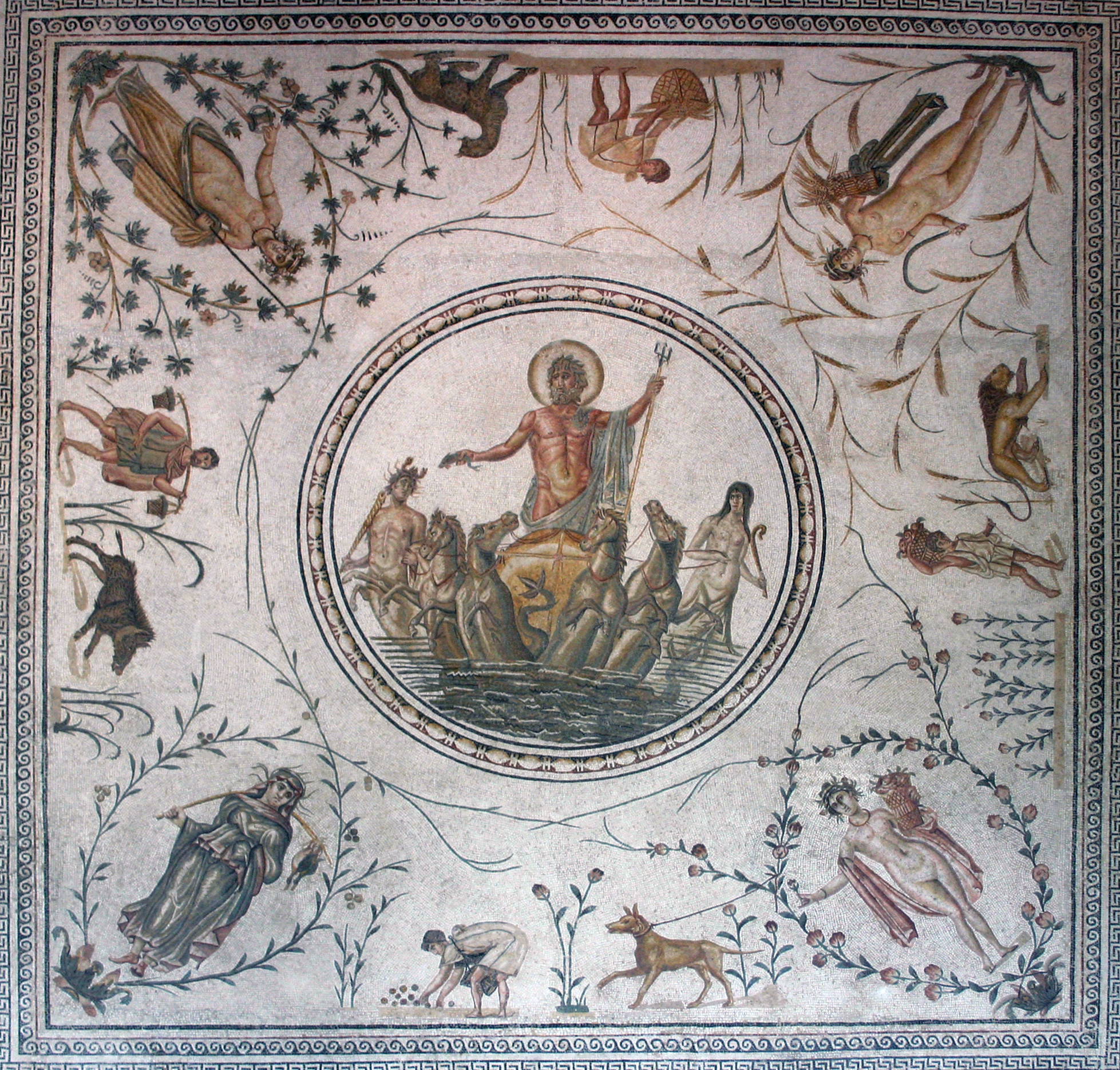 "The Triumph of Neptune" Roman mosaic from La Chebba, Tunisia, late 2nd Century CE. Women representing the four seasons occupy each corner, along with agricultural scenes and flora. Bardo National Museum, Tunis, Tunisia.